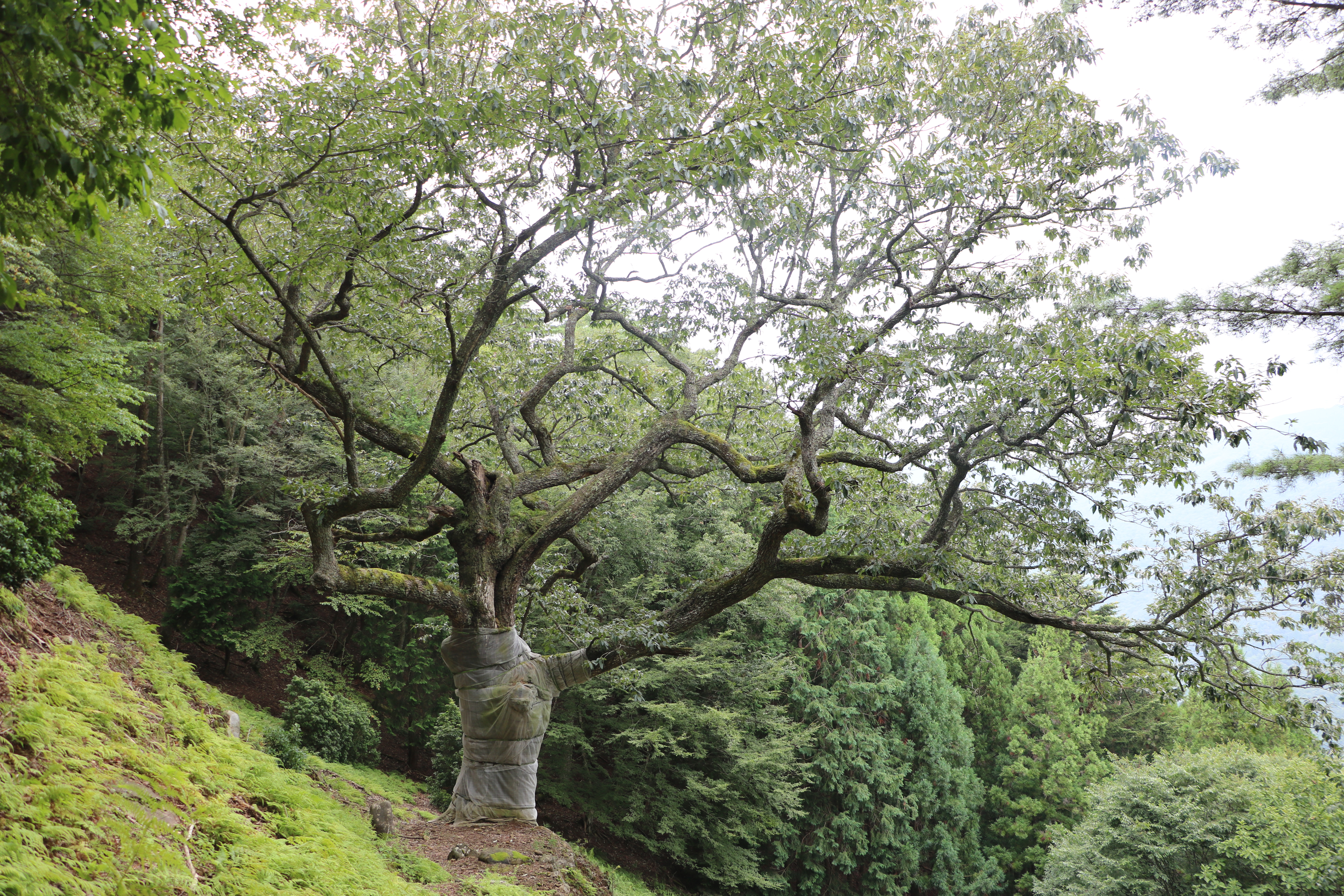 Kuchioya no O-Abemaki